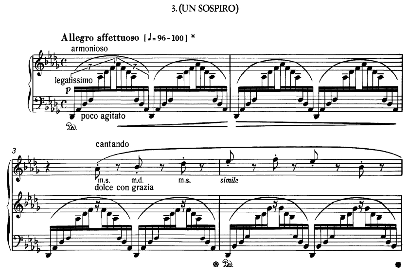 Liszt_Sospiro_Concert_Etude_Opening, scan from PD material